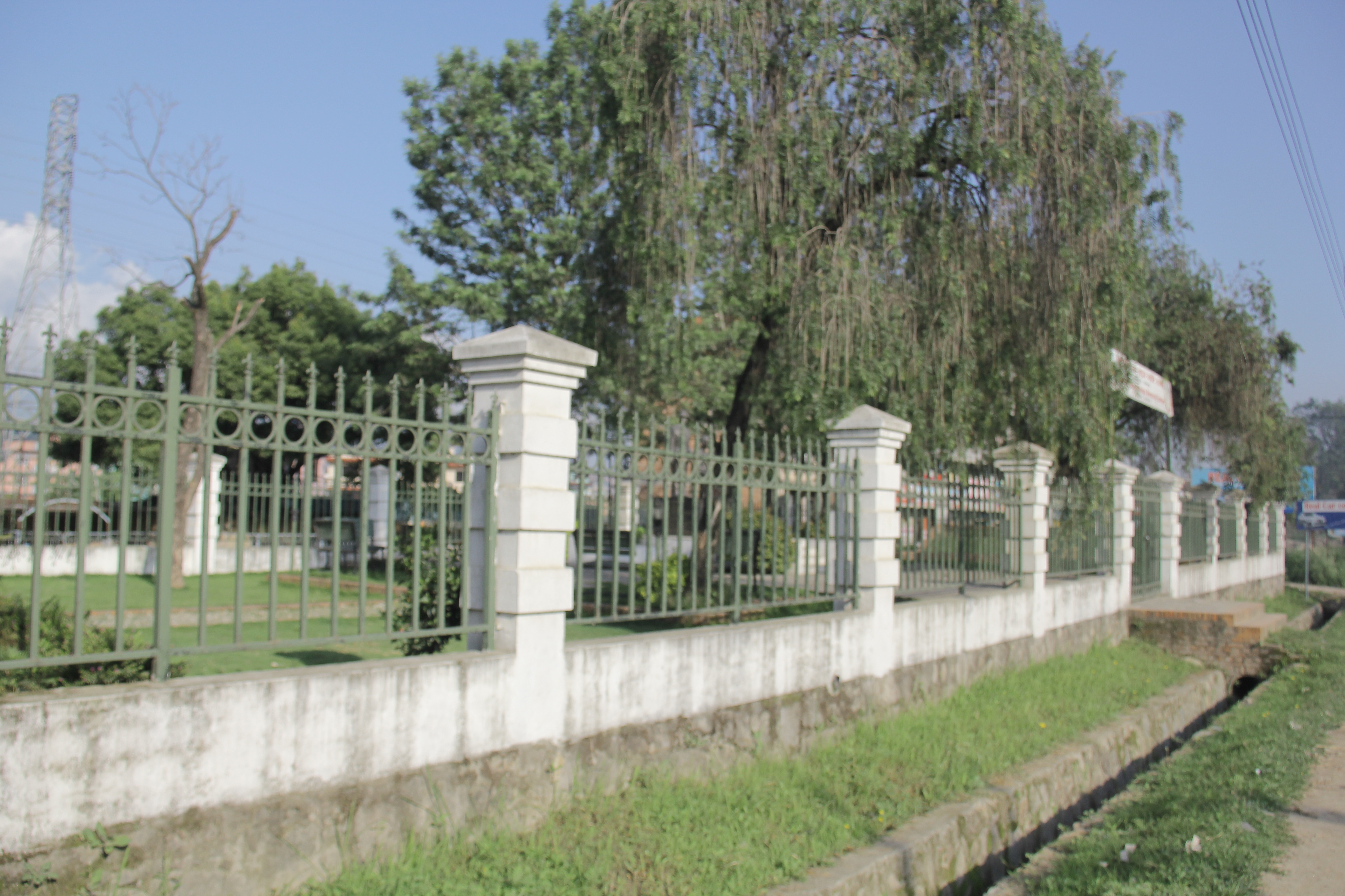 The outer view of Krishnamohan Nudup Memorial Garden built at Bagdol Lalitpur where they were shut to death.